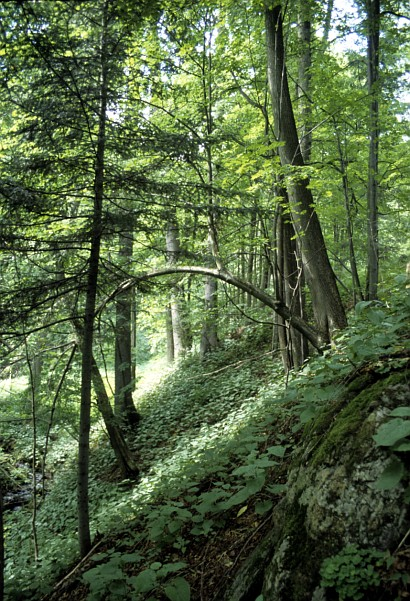 Lunario-Aceretum pseudoplatani maple forest (near Gniewoszów, Bystrzyckie Mts., Central Sudetes, Poland).